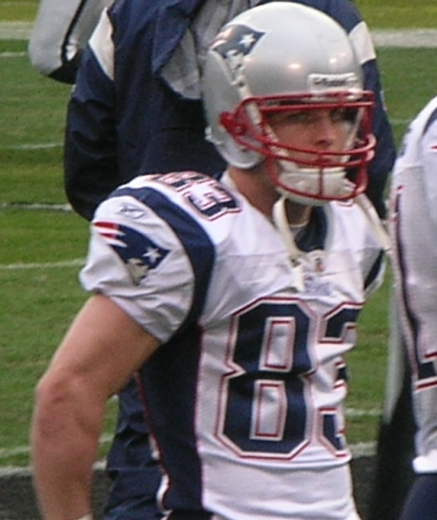 New England Patriots wide receiver Wes Welker on the field prior to an away game against the Oakland Raiders. The Patriots won 49-26.